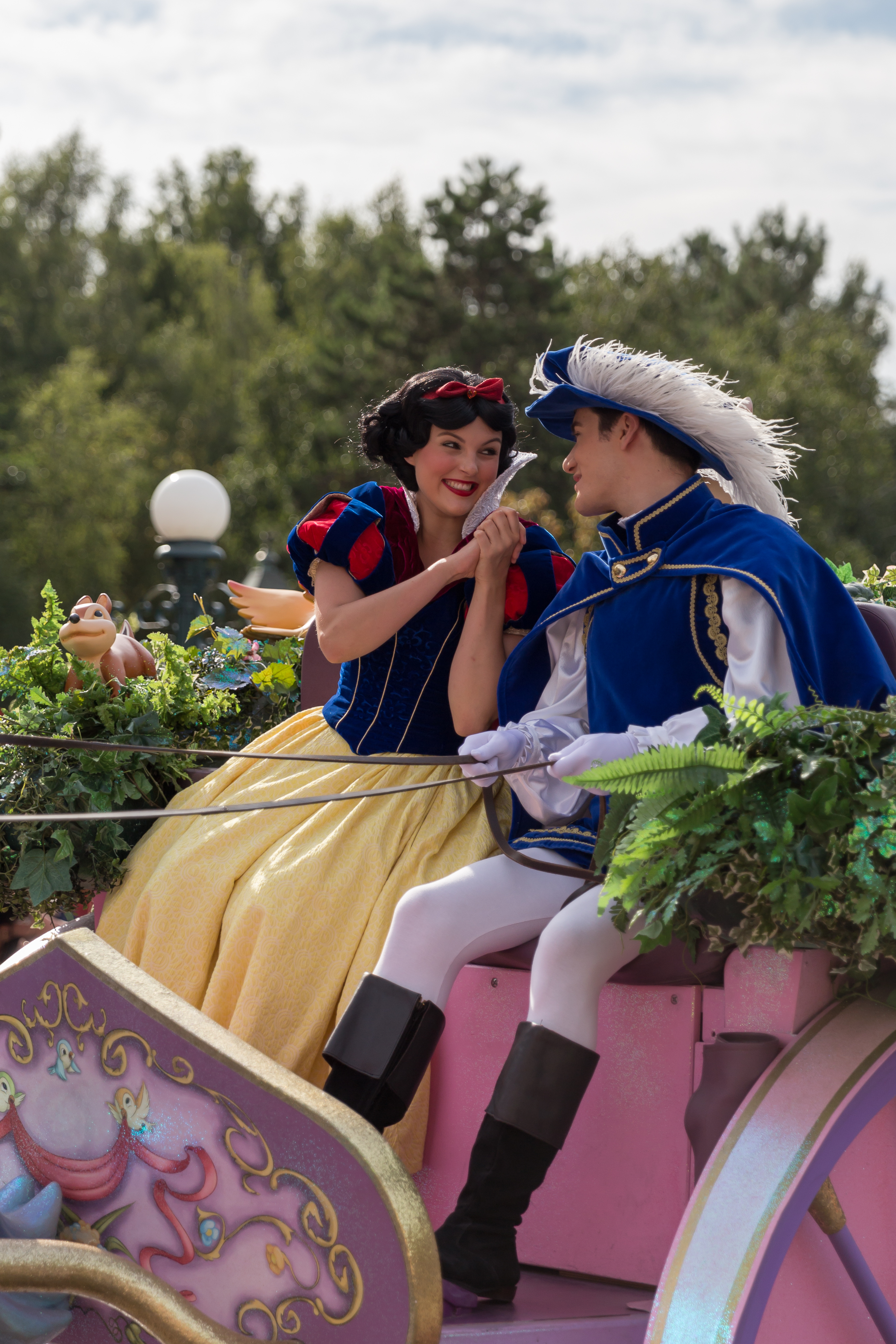 Snow White with her prince in the Disney Magic On Parade in Disneyland Paris.